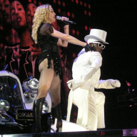 Madonna performing Beat Goes On during the Sticky & Sweet Tour